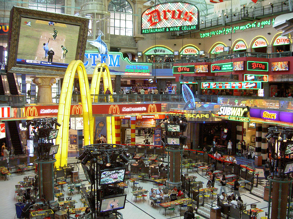 Canal Walk Food Court at Century City, Cape Town, South Africa. Picture by Henry Trotter, 2006.